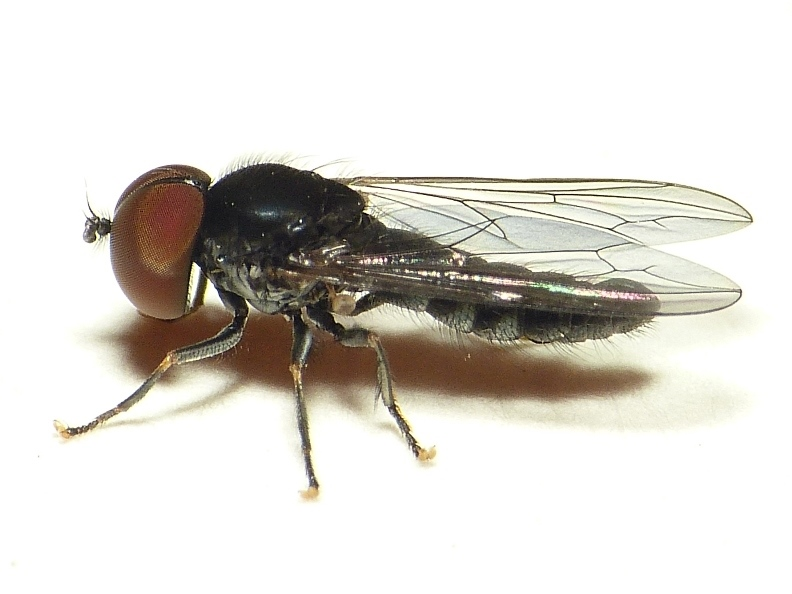 Verrallia aucta, location: The Netherlands - Rhenen - Blauwe Kamer - Gelderland